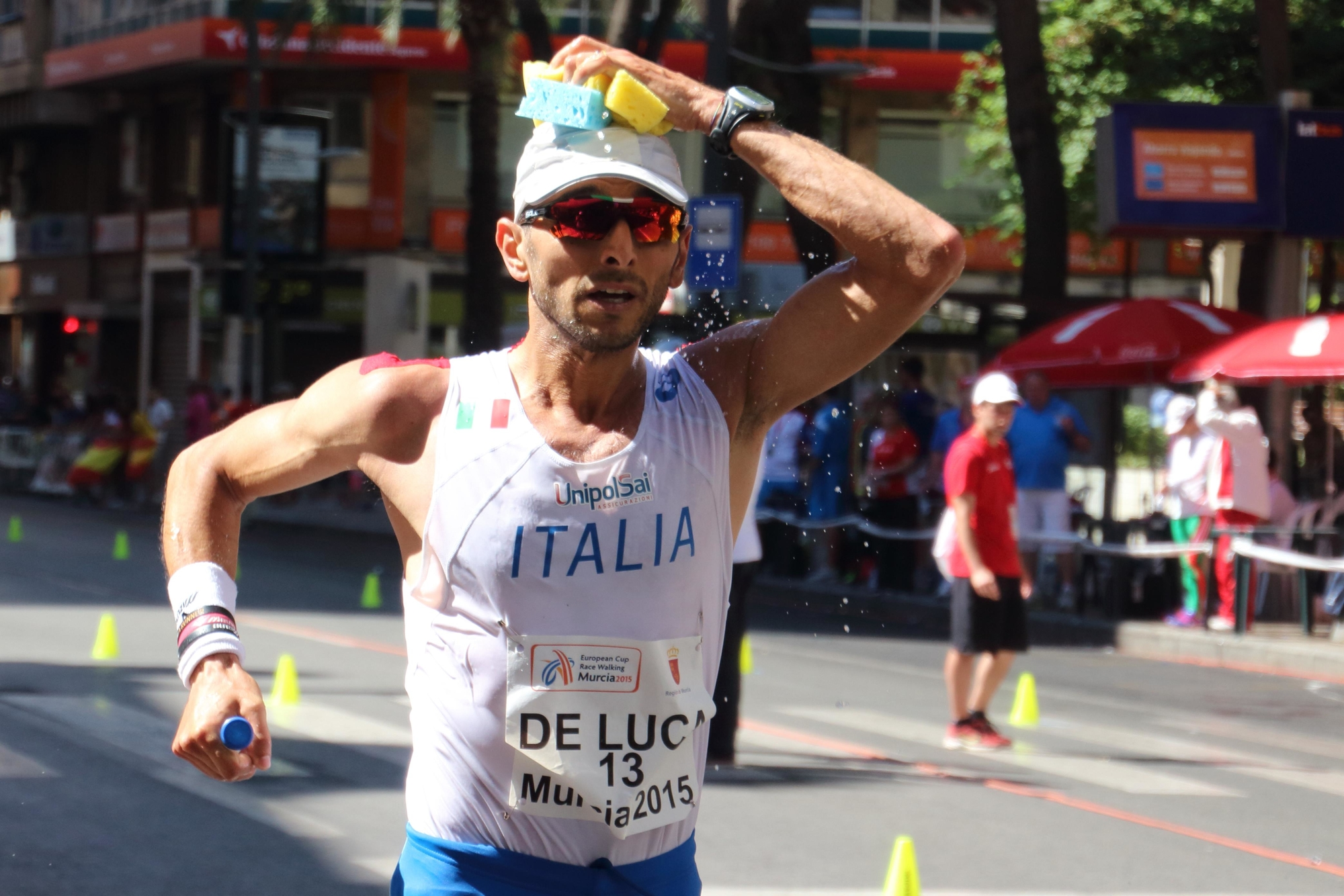 Marco De Luca, italian race walker, in the European Cup Race Walking 2015 (Murcia, Spain).